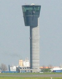 Copenhagen Airport. Kastrup. Control tower